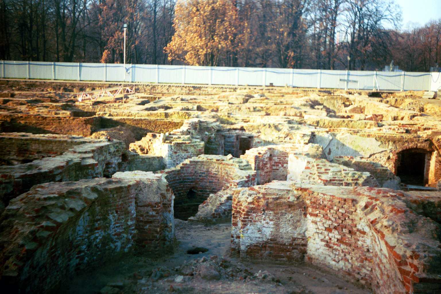 Foundations of Saski Palace in Warsaw, Poland.